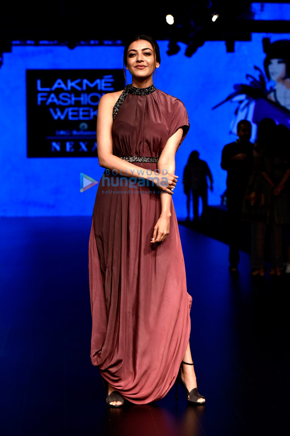 Kajal Aggarwal graces Lakme Fashion Week 2018 – Day 4, Aug 25, 2018